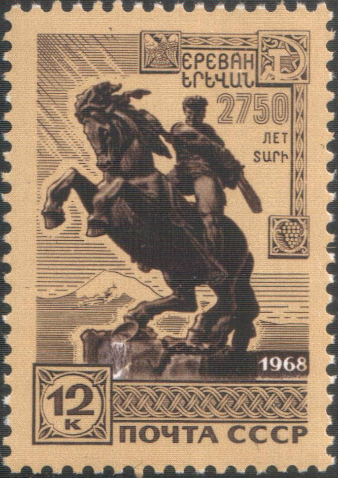 USSR stamp: David of Sassoun Monument in Yerevan (Yervand Kochar, 1959) and Ararat Mountains. Series: 2750th Anniversary of Yerevan, Armenian Capital